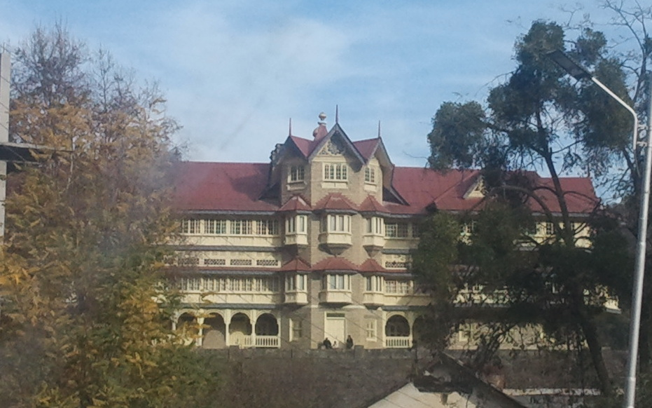 Photo of Jubbal Palace. This palace which was once the abode of the royal Jubbal family has been turned into a heritage spot now.